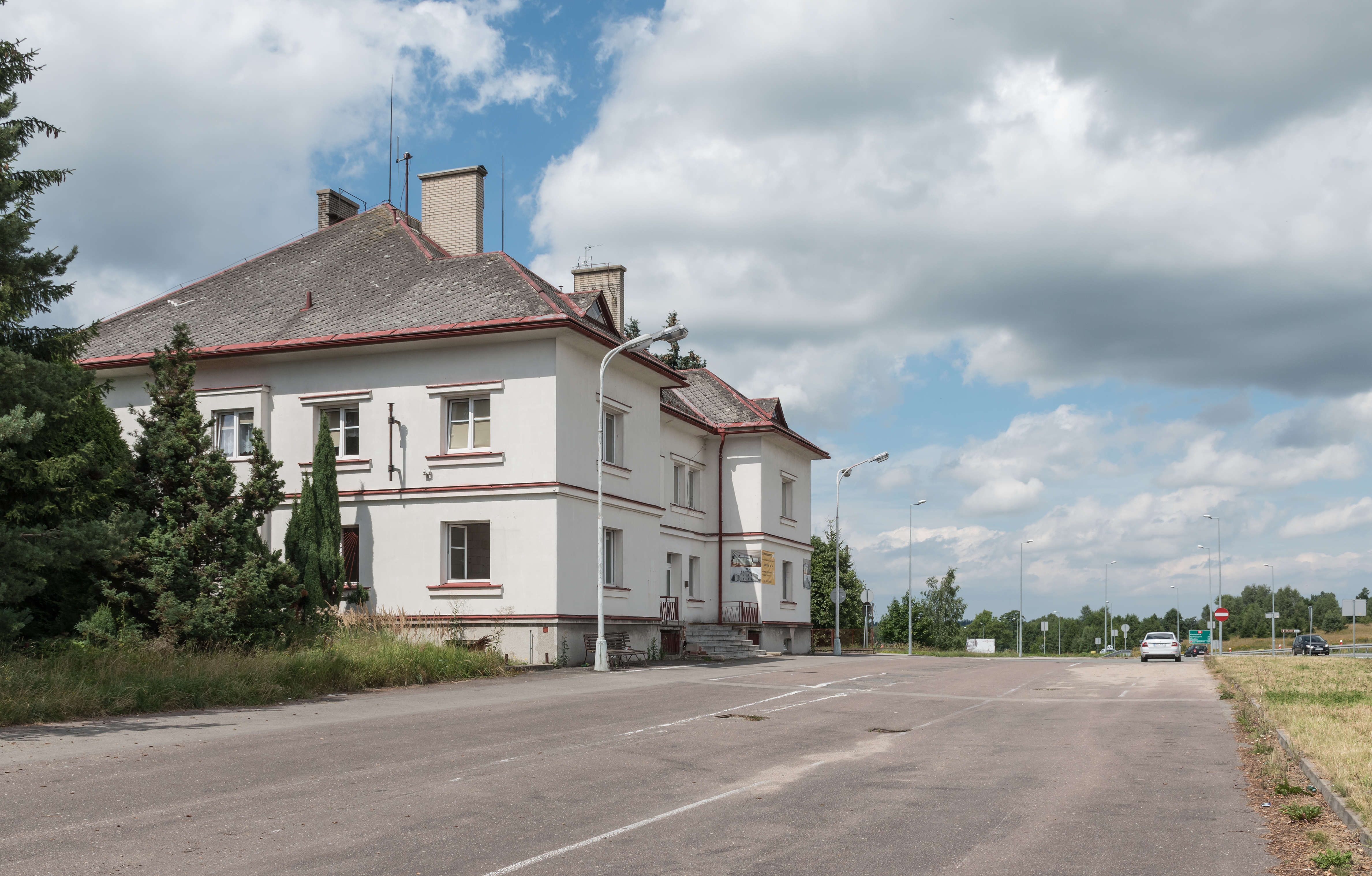 Boboszów–Dolní Lipka border crossing